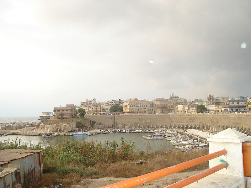 Port of the coastal city Jableh, Latakia Governorate, Syria.